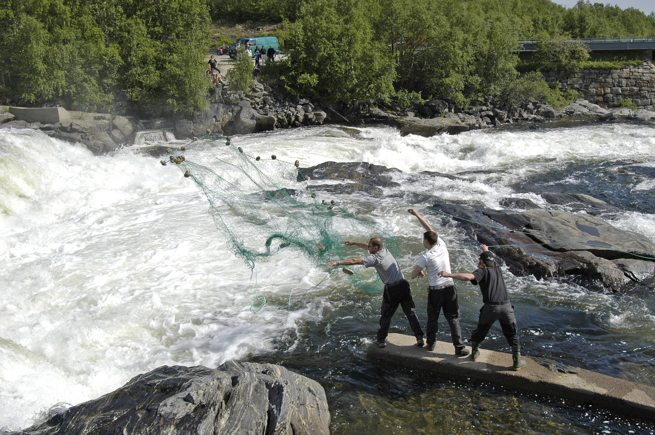 Salmon fishing with Käpälä, Neiden, july 2005